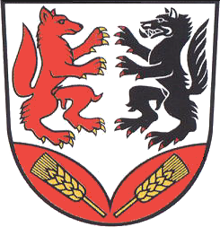 Coat of Arms of Zedlitz